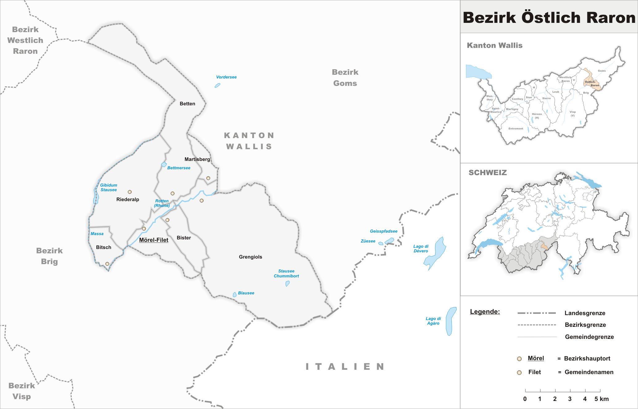 Municipalities in the district of Östlich Raron to 2009